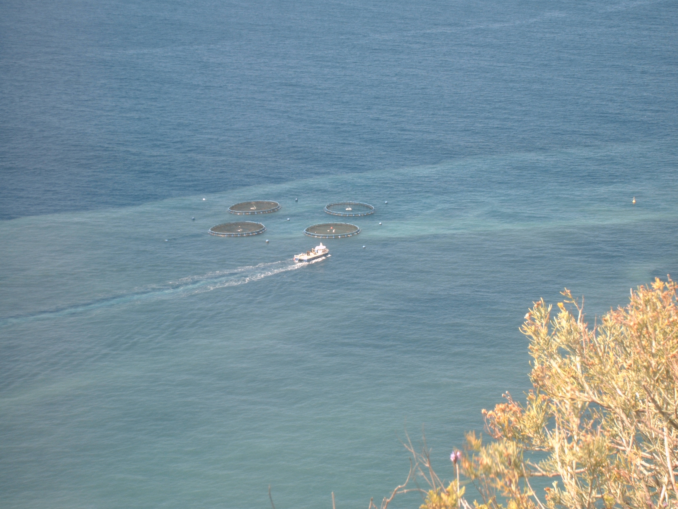 Fish farming Puerto de Tazacorte